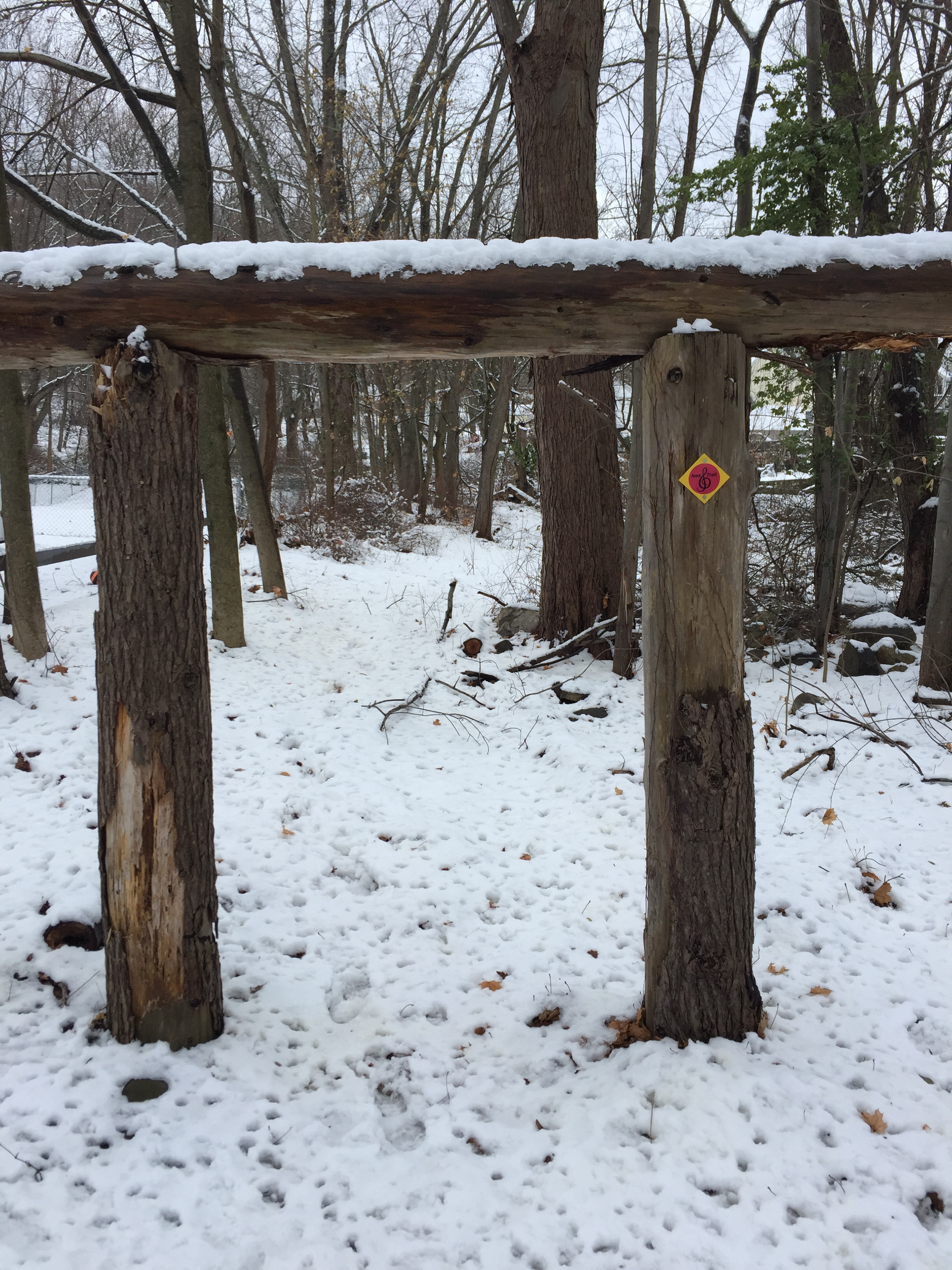 Near Ives Birthplace, in Danbury